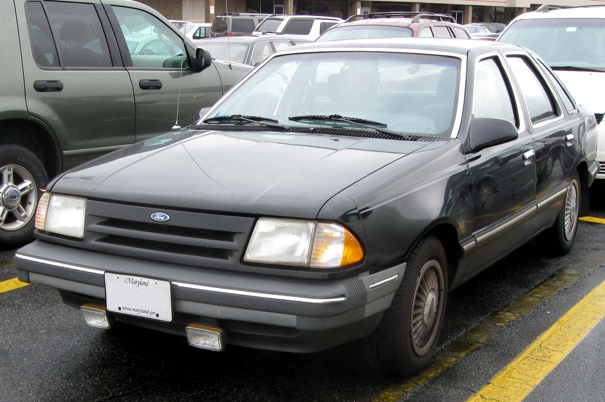 1986-1987 Ford Tempo photographed in Waldorf, Maryland, USA.